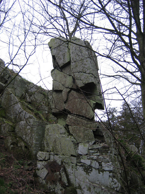 The Spindlestone The Spindlestone at Spindlestone Heughs as included in the legend of the Laidely Worm and as seen in the 1881 painting by Walter Crane.